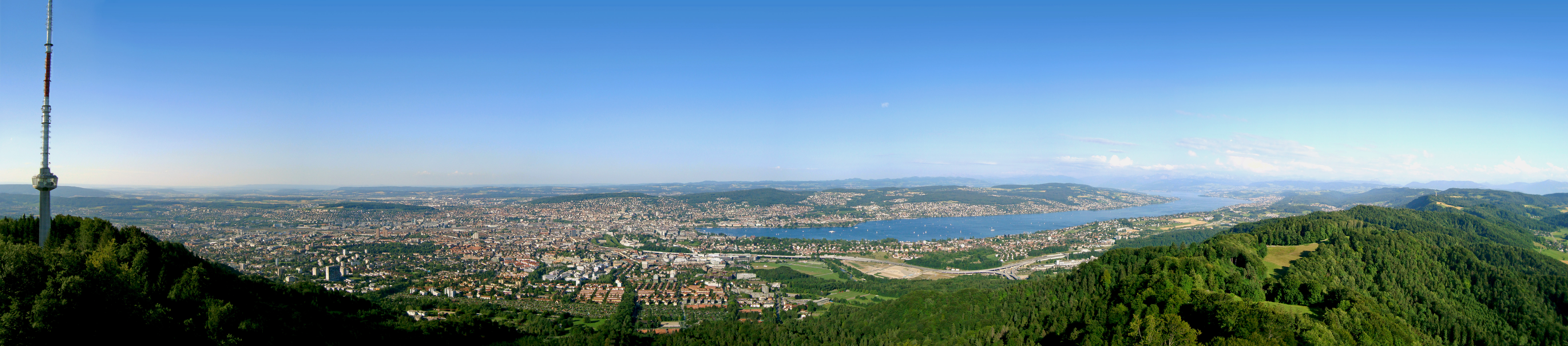 View over Zürich from the mount Uetli